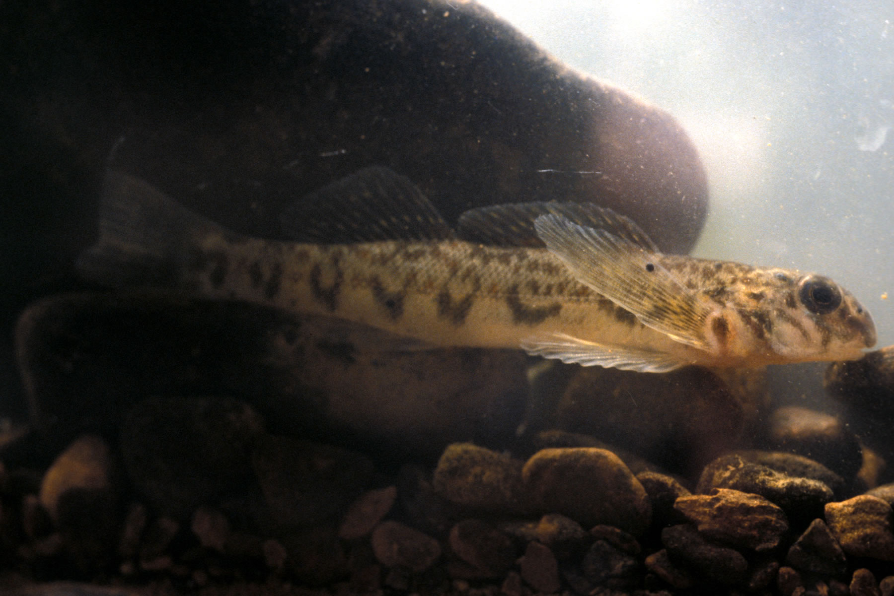 Etheostoma blennioides USFWS photo